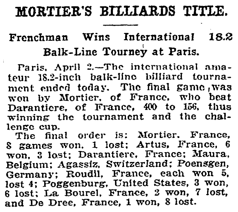 short news from the Cadre 45/2 world championships 1912 in Paris